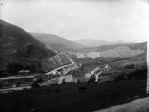 1 negative : glass, dry plate, b&w ; 16.5 x 21.5 cm.